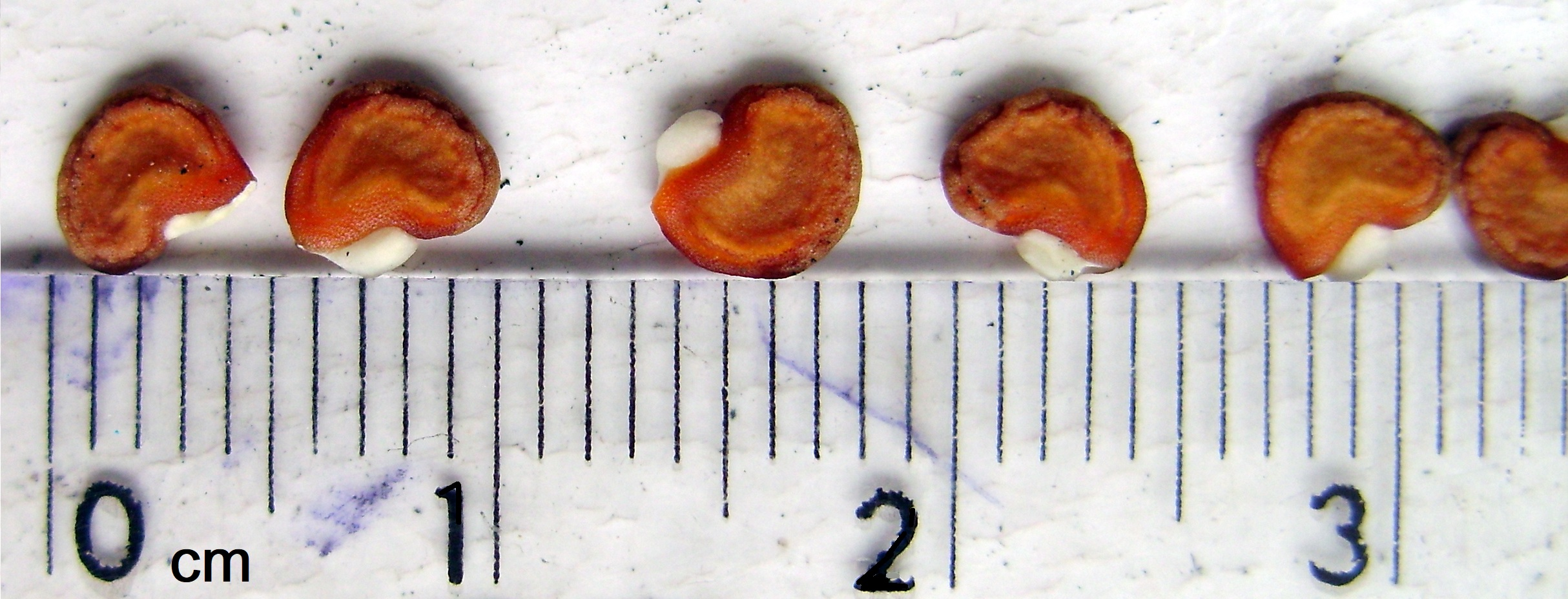 Greenhouse-cultivated Datura inoxia seeds. Ruler in centimeters.